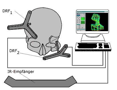 Scheme of the SSN principles